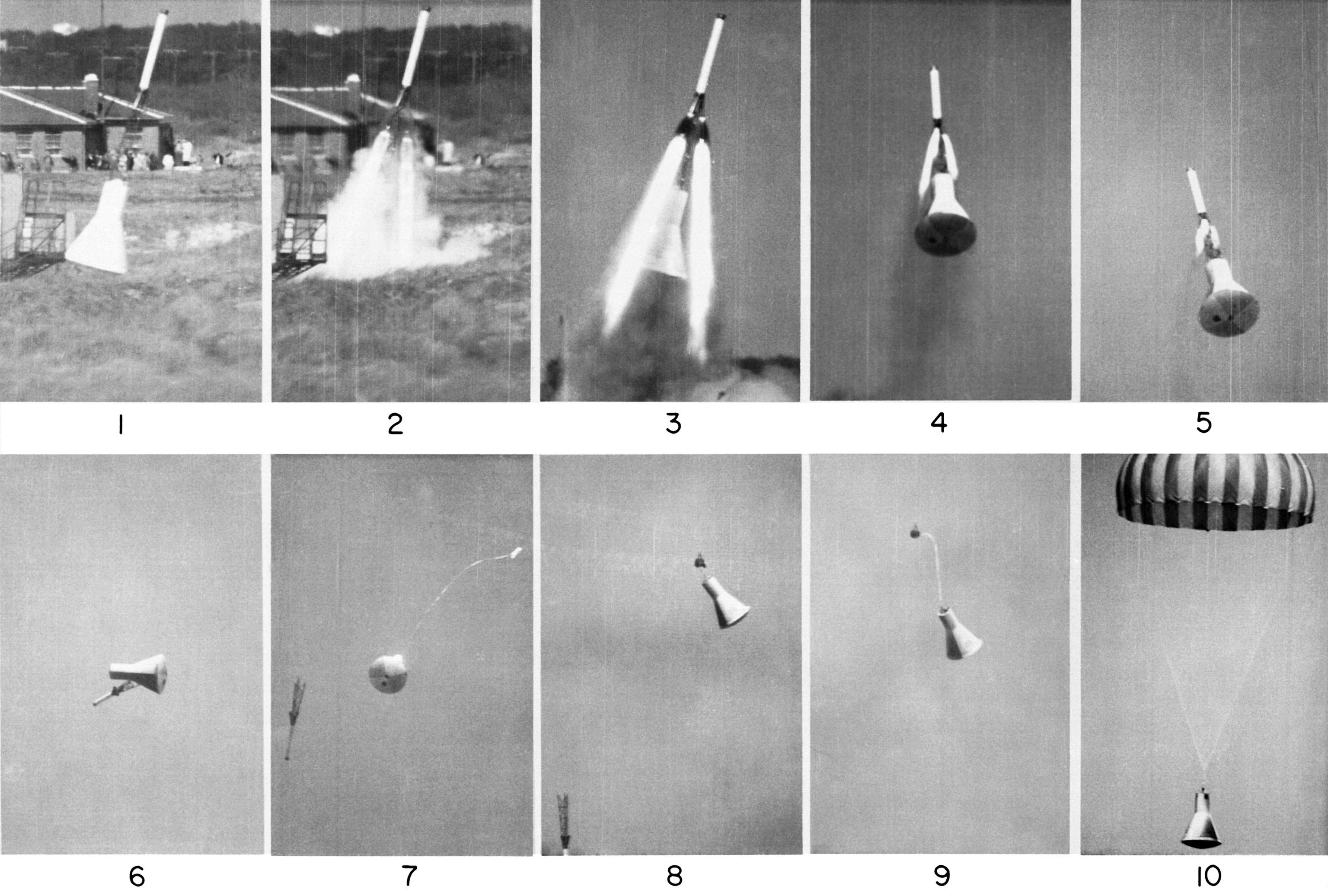 Sequence of events in a beach abort test of Mercury capsule with Recruit escape motor from launch to parachute opening. The capsule shape used was "D".